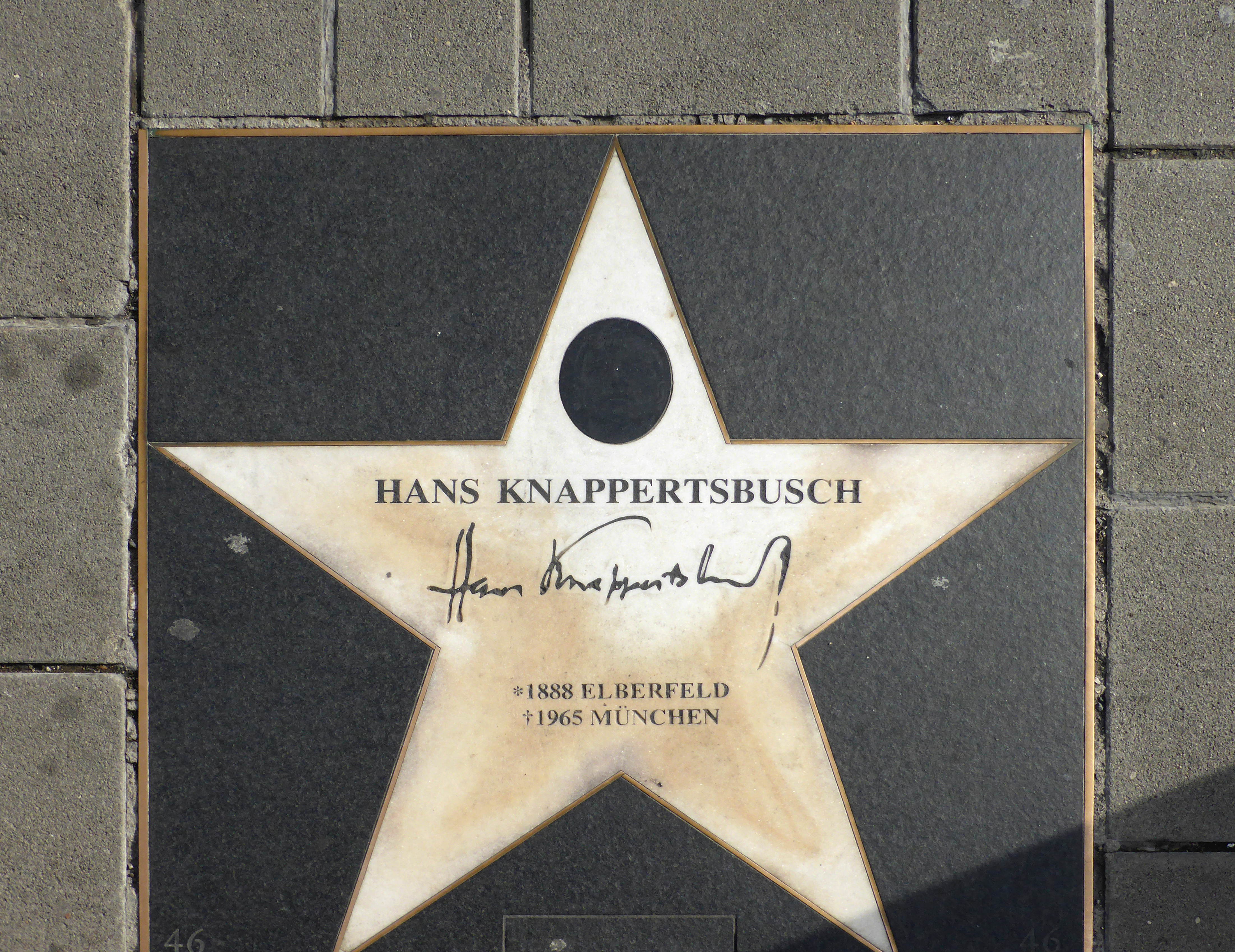 Walk of Fame Vienna Hans Knappertsbusch.